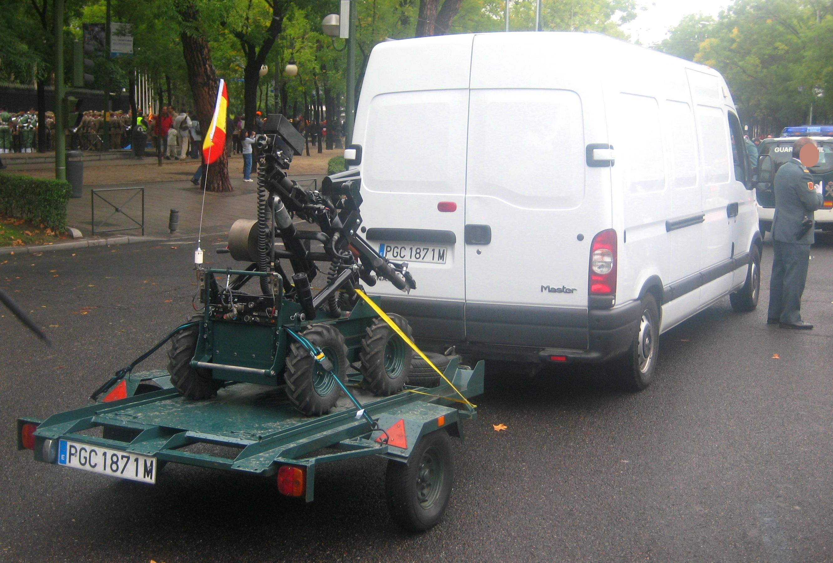 Robot of the TEDAX (Técnicos especialistas en desactivación de artefactos explosivos, Specialists in EODs) of the Spanish Civil Guard.